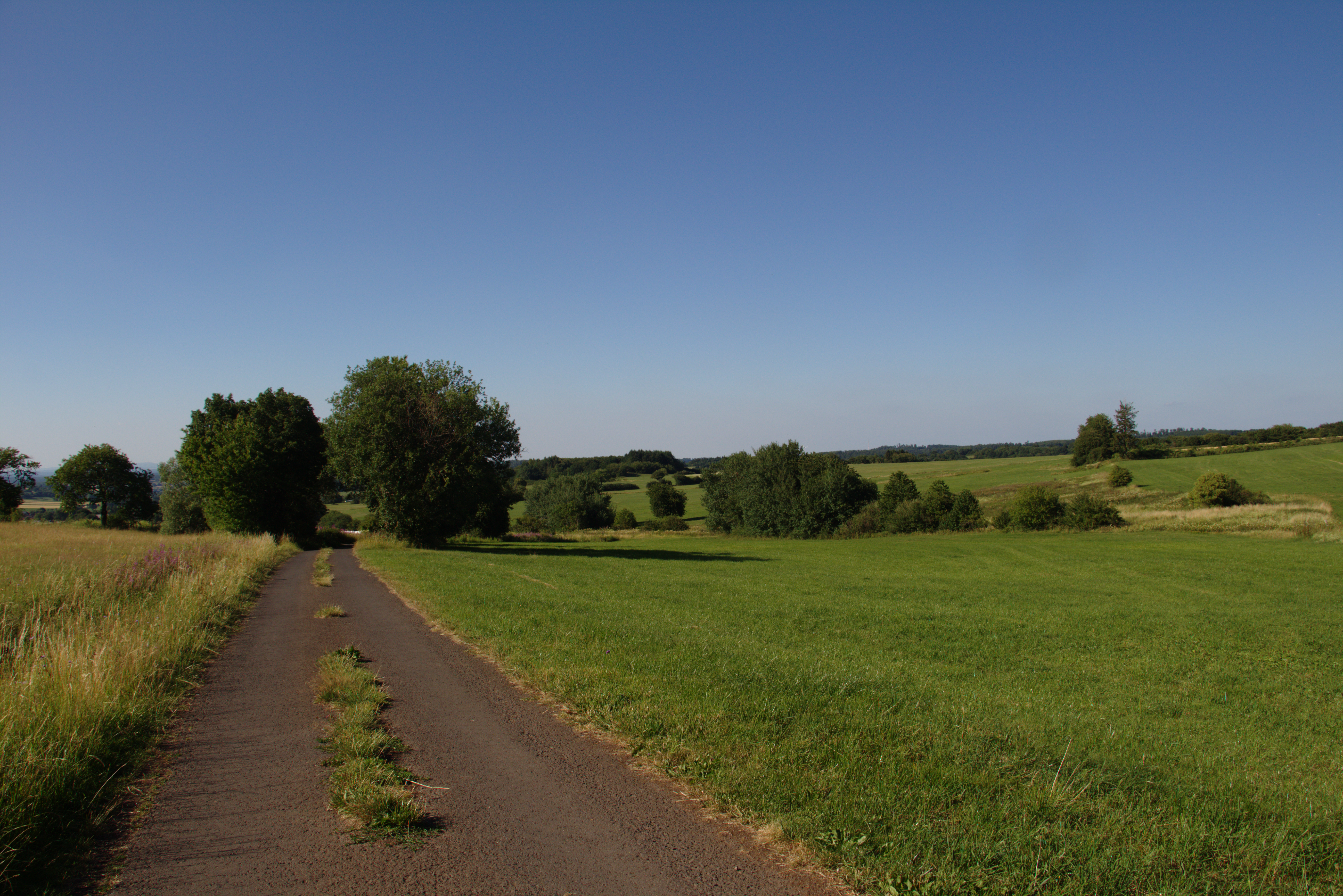 Paved agricultural Road (with "grass" growing on aggregated dirt in the middel). Between Ulrichstein and Stumpertenrod in Feldatal, Hesse, Germany. Part of "Vulkan Steig" Hiking trail.